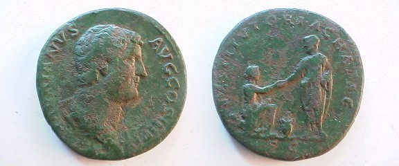 Hadrian AE Sestertius. HADRIANVS AVG COS III P P, laureate bust right RESTITVTOR ACHAEA, the emperor standing left in toga, raising Achaea, kneeling right, vase between them.